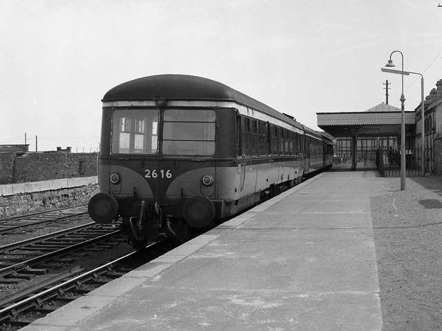 Built by Park Royal Vehicles with AEC diesel engines, the 60 2601-class railcars were CIE's first steps towards modernisation when introduced 1951-54. By 1975, only 2 units survived in operation (2616 & 2651), the remainder being converted to de-engined "push-pull" vehicles. 2616 & 2651 were not converted and scrapped at Mullingar in late 1975. Seen at a now much changed Howth station, the set is about to depart with a passenger service to Dublin.